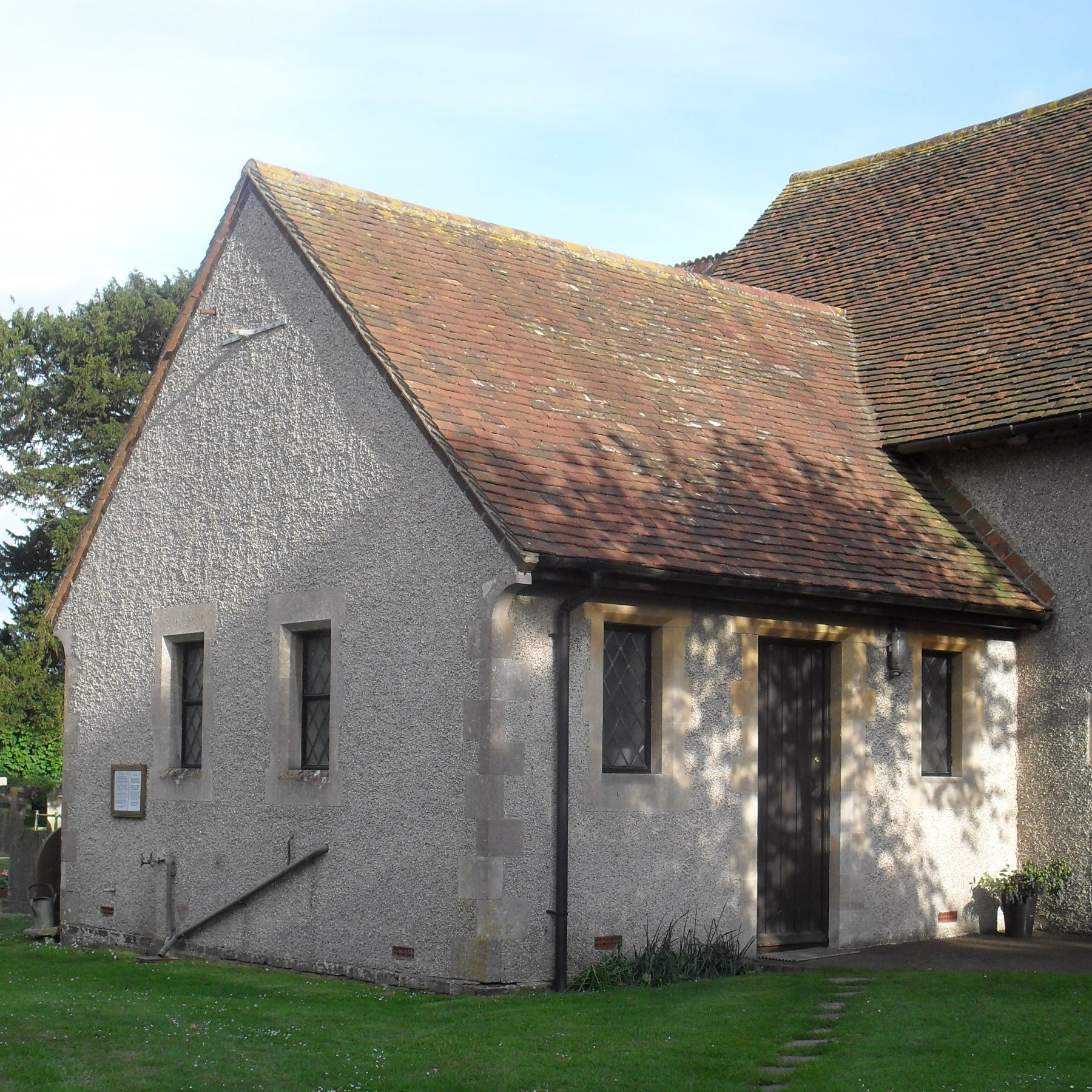 St George's Church, Eastergate, Arun District, West Sussex, England. The ancient parish church of Eastergate. This view shows the 1920s vestry. Listed at Grade II* by English Heritage (NHLE Code 1233516)